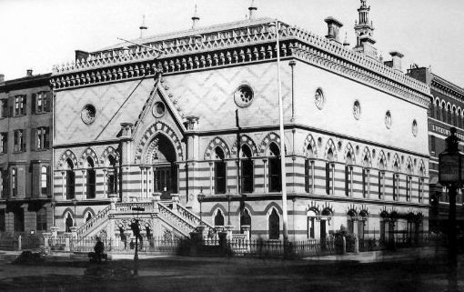 Academy of Design (1863-65) at the corner Twenty-Third Street & Fourth Ave.d.F.B. Wight